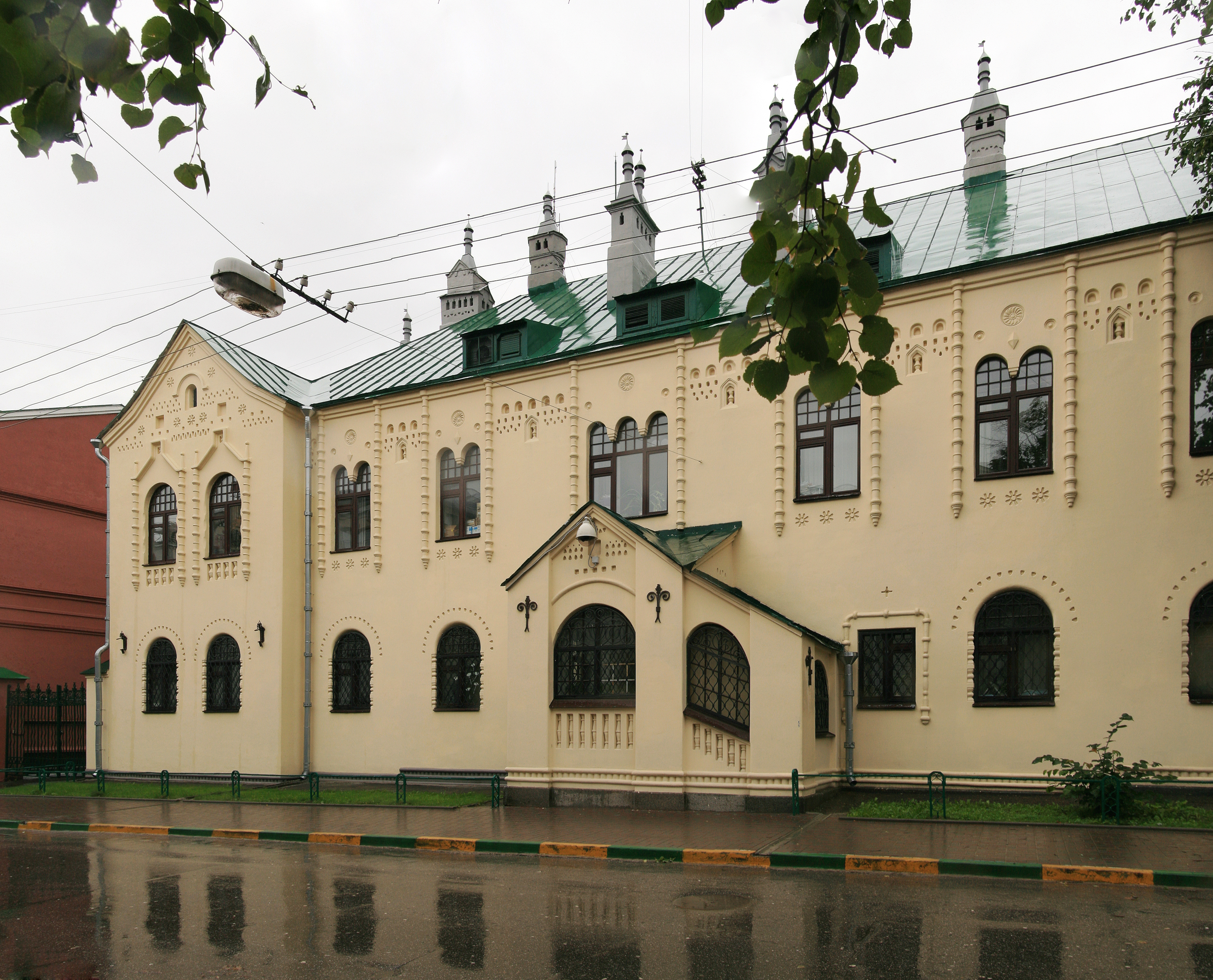 The service building of State Bank in Nizhny Novgorod